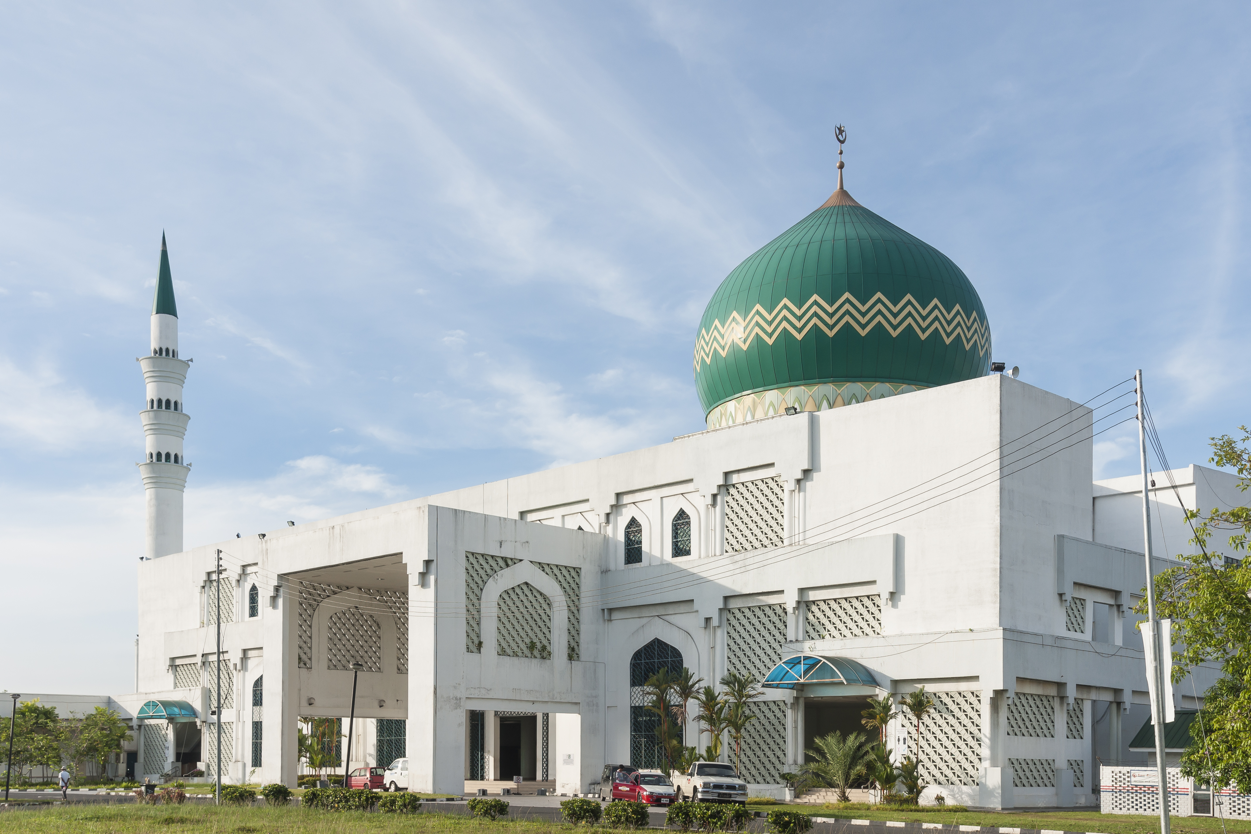 Tawau, Sabah: Al-Khauthar Mosque